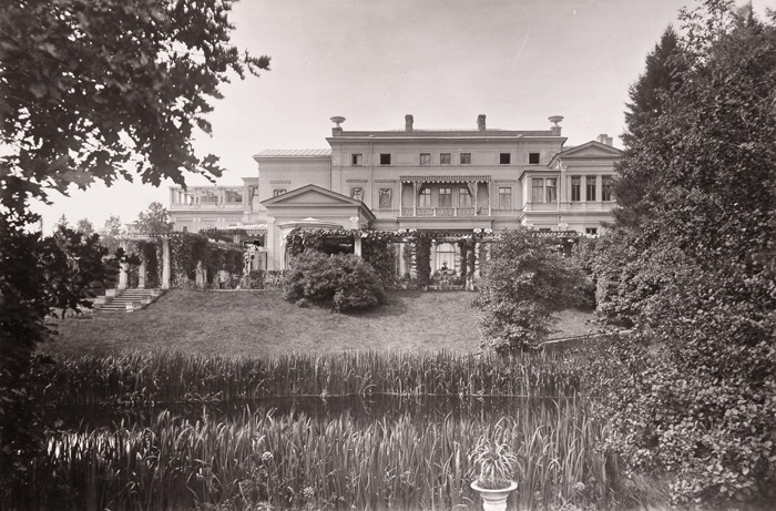 Mikhailovka Palace in Peterhof